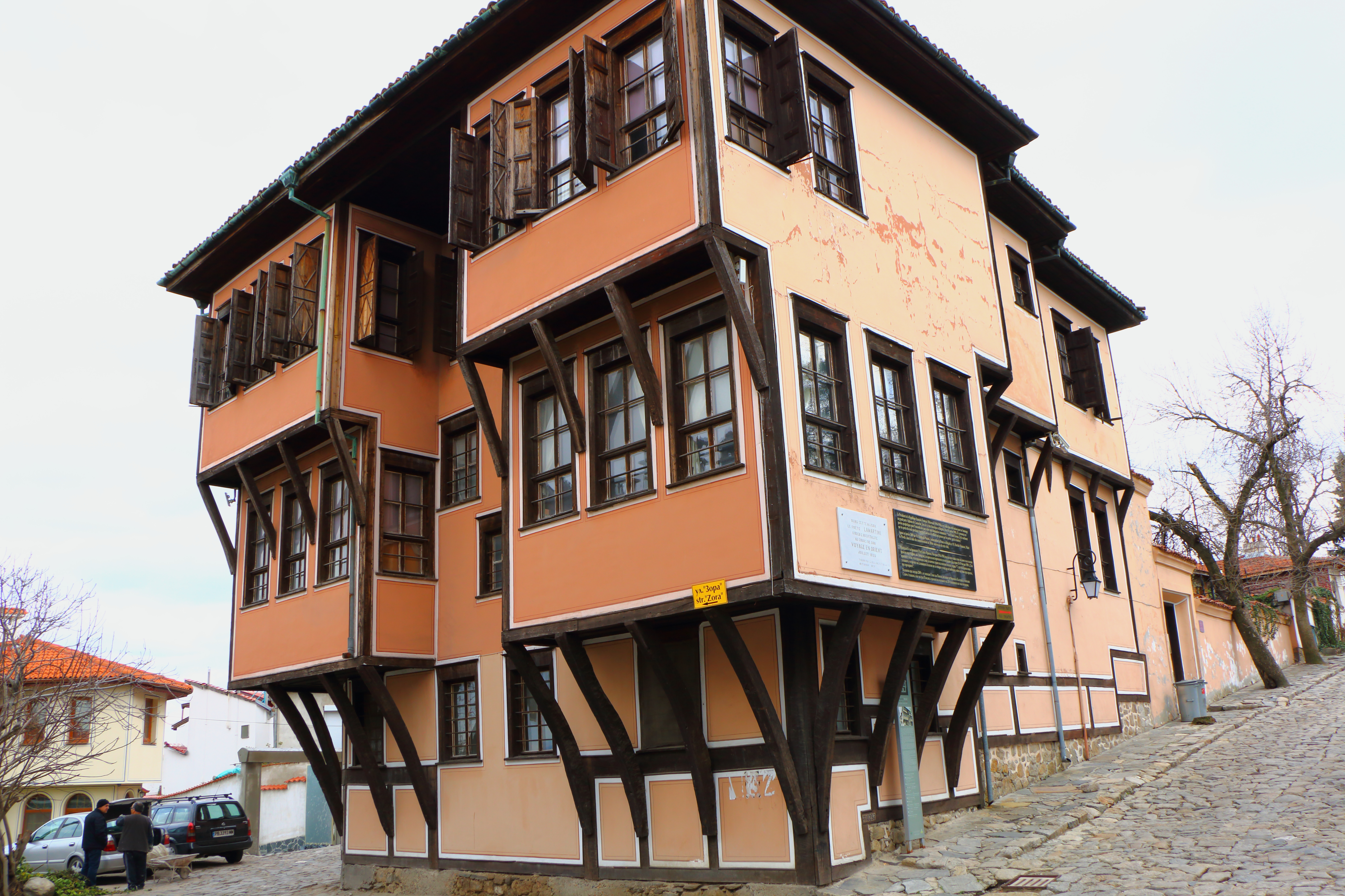 Lamartin house in Plovdiv old town